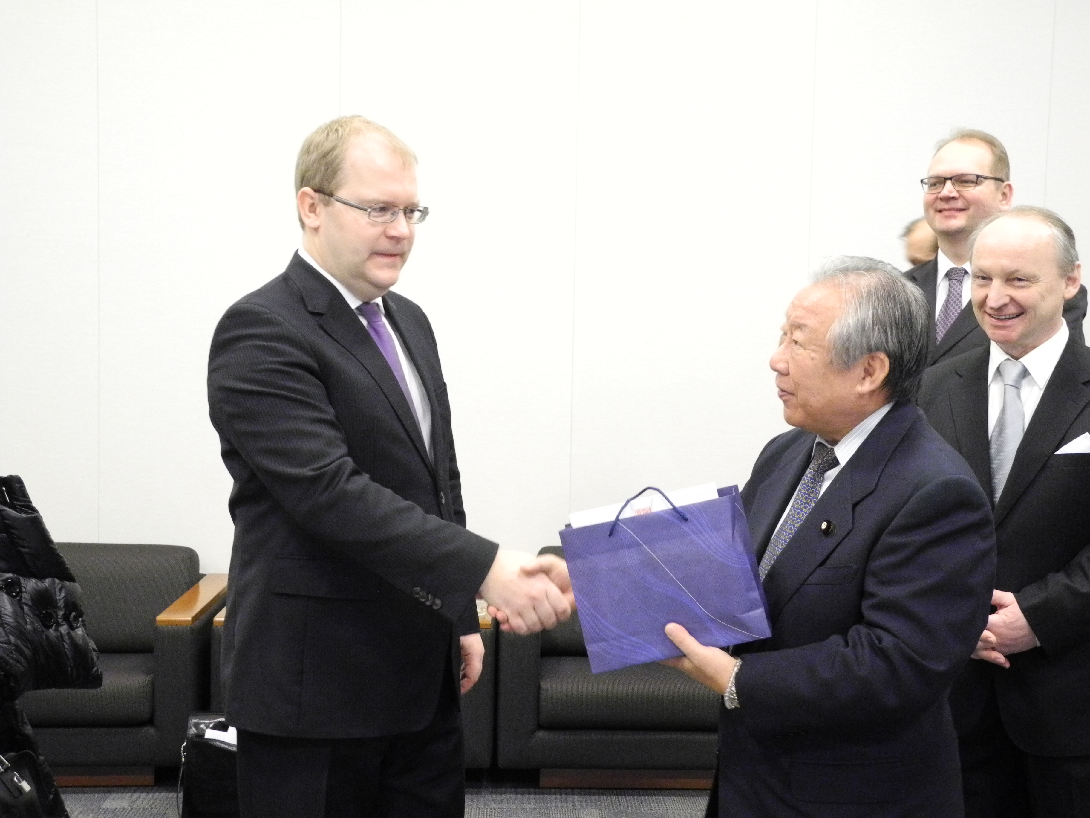 Urmas Paet, Minister of Foreign Affairs, met Yoshitada Kōnoike, President of the Japan–Estonia Friendship Parliamentarians' Union, with Toivo Tasa, Ambassador to Japan, in Tōkyō Metropolis